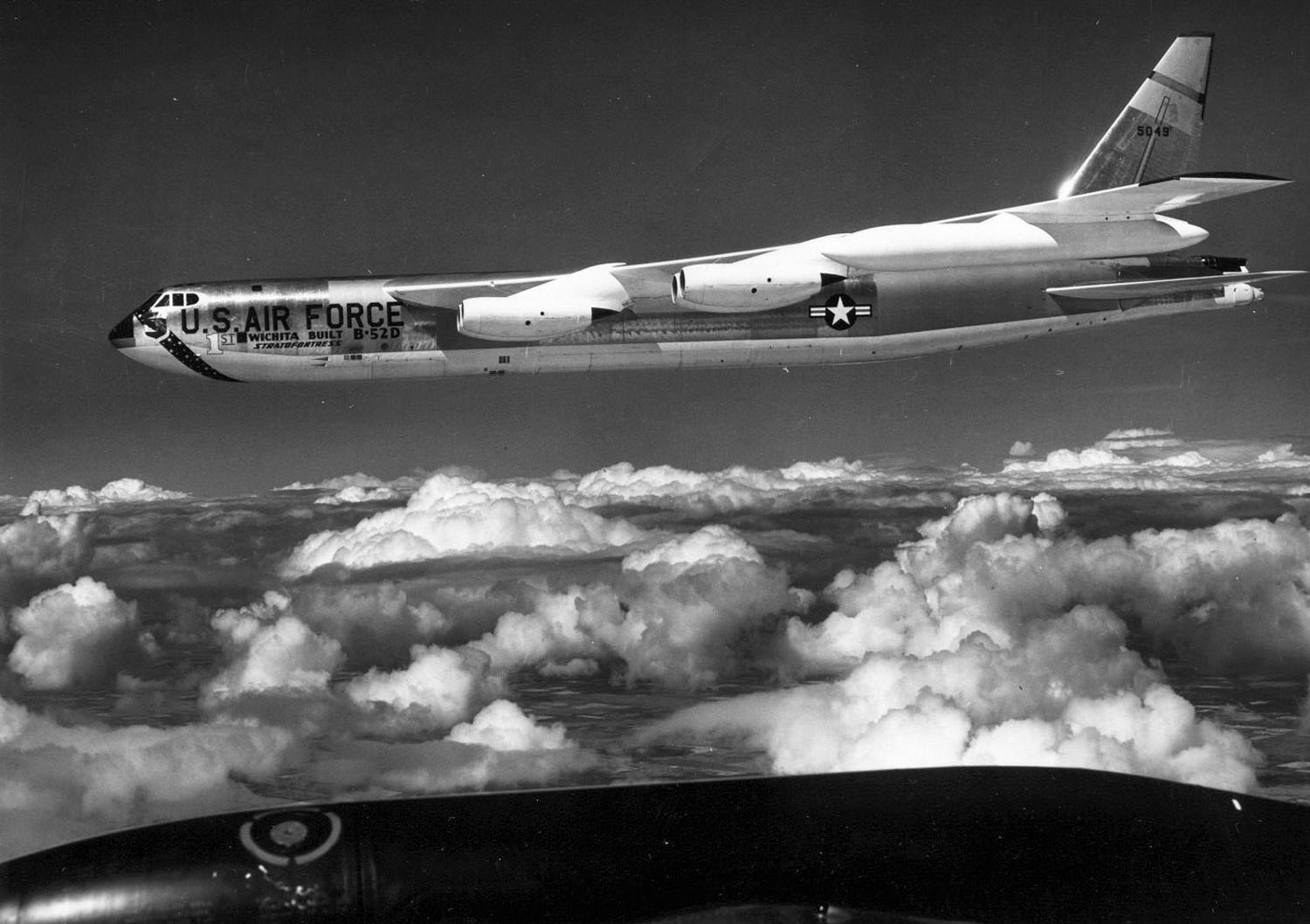 Boeing B-52D-1-BW (SN 55-0049)